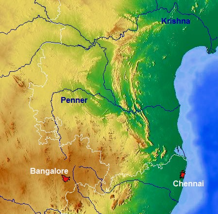 A derivative work on the following wikimedia commons file with CC 3.0 license: Andhra Pradesh topo leer.png